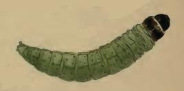 Stainton’s Natural History of the Tineina (1855–1873): Agonopterix silerella